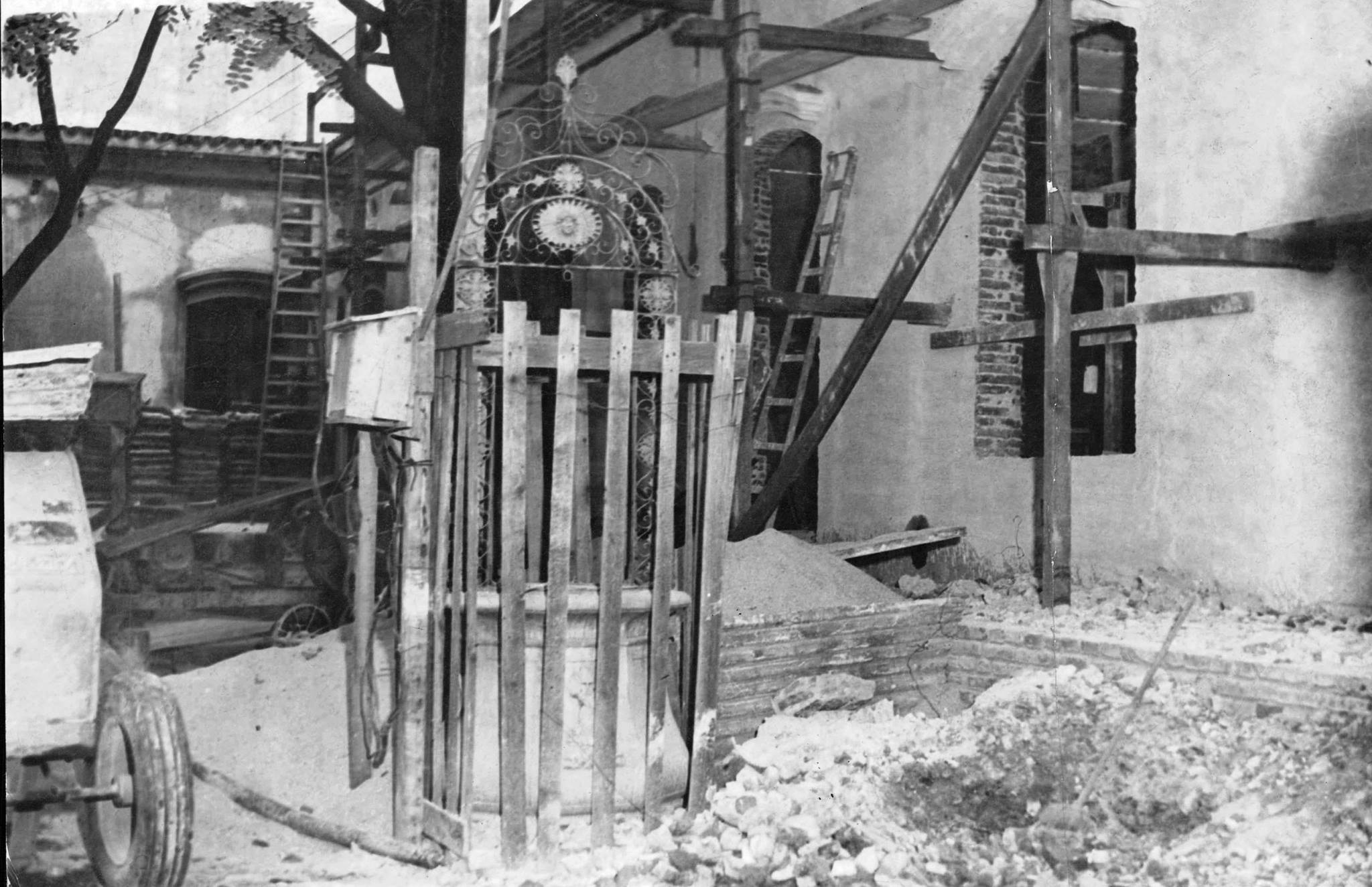 Spanish cistern that belonged to the Juan Manuel de Rosas' family. The photo was taken at the Cabildo de Buenos Aires during the remodelation carried out by the Arq. Buschiazzo in 1940.